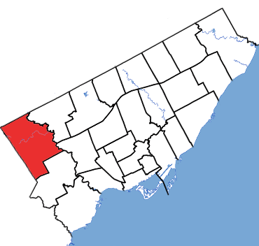 Etobicoke North in relation to the other Toronto ridings (2015 boundaries)